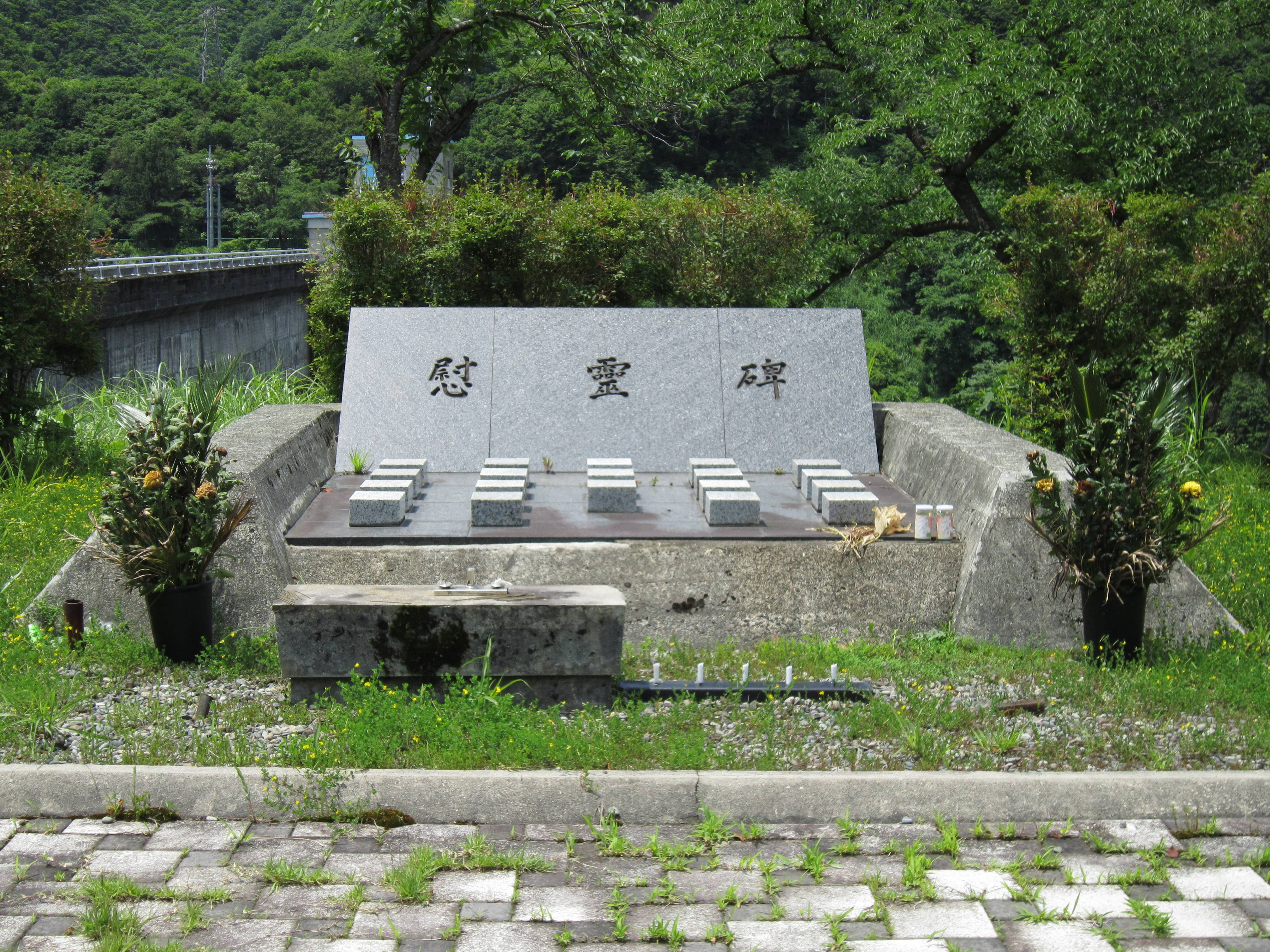 Kuromatagawa I Dam cenotaph.